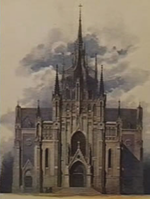 Cathedral of the Immaculate Conception of the Holy Virgin Mary, Moscow. Conceptual design.